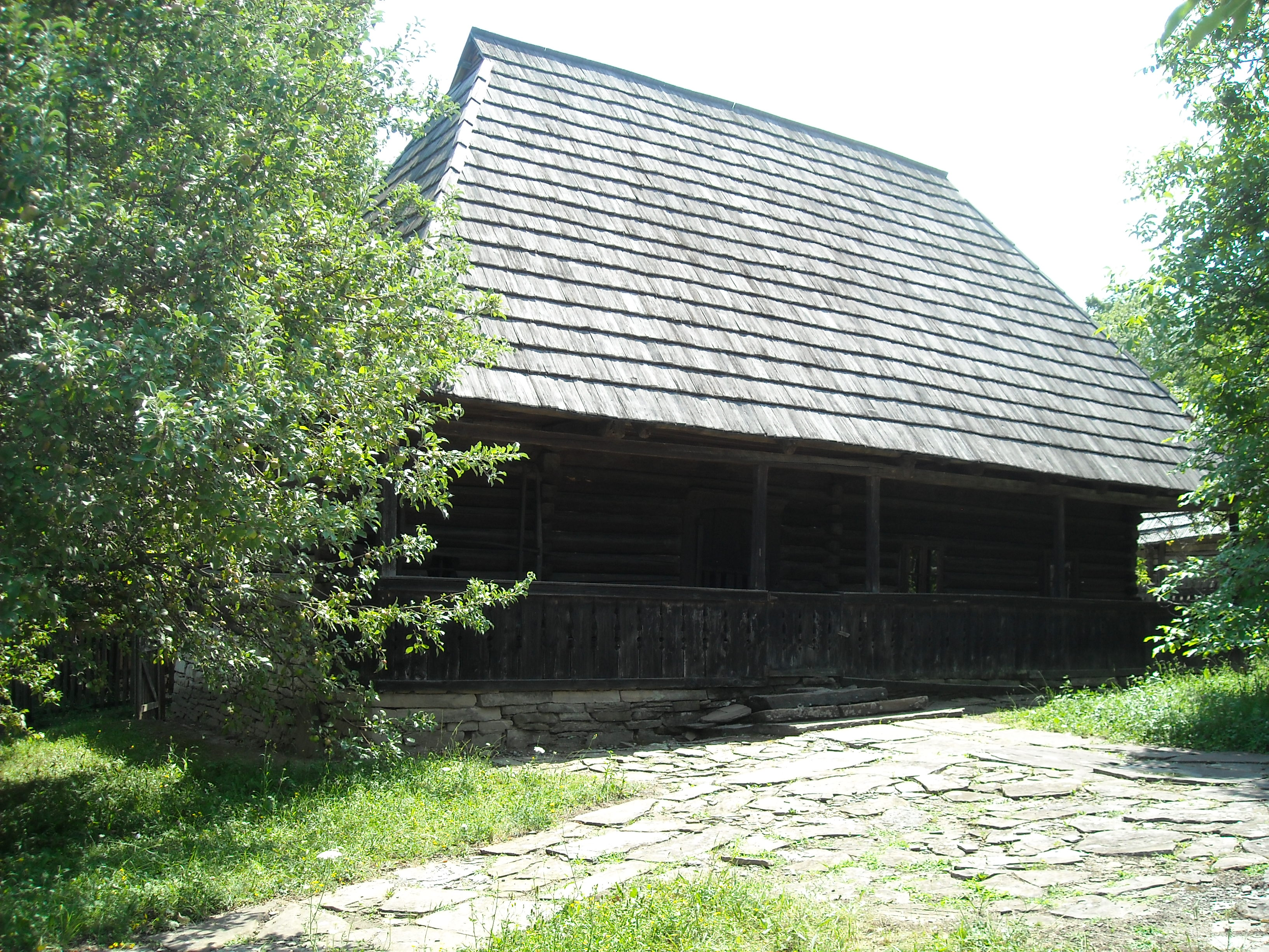 household from Telciu in the Cluj open-air ethnographic museum - house (from 1841)